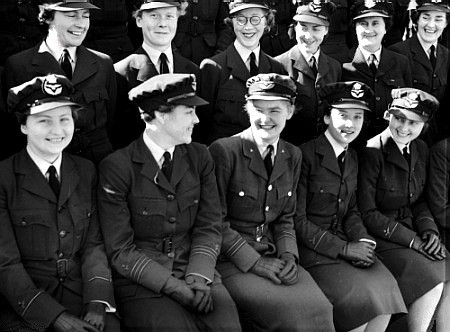 Melbourne, Vic. Group portrait taken at a parade of members of No. 1 WAAAF Officers Training Course held at No. 1 WAAAF Training Depot, Mayfield Avenue, Malvern. Seated, left to right: Assistant Section Officer (A/SO) Elizabeth O'Loghlen; Director WAAAF Wing Officer Clare Stevenson; Deputy Director WAAAF Flight Officer Sybil-Jean Burnett, WAAAF; A/SO Maxine Boydell; A/SO Edna Mrosk.